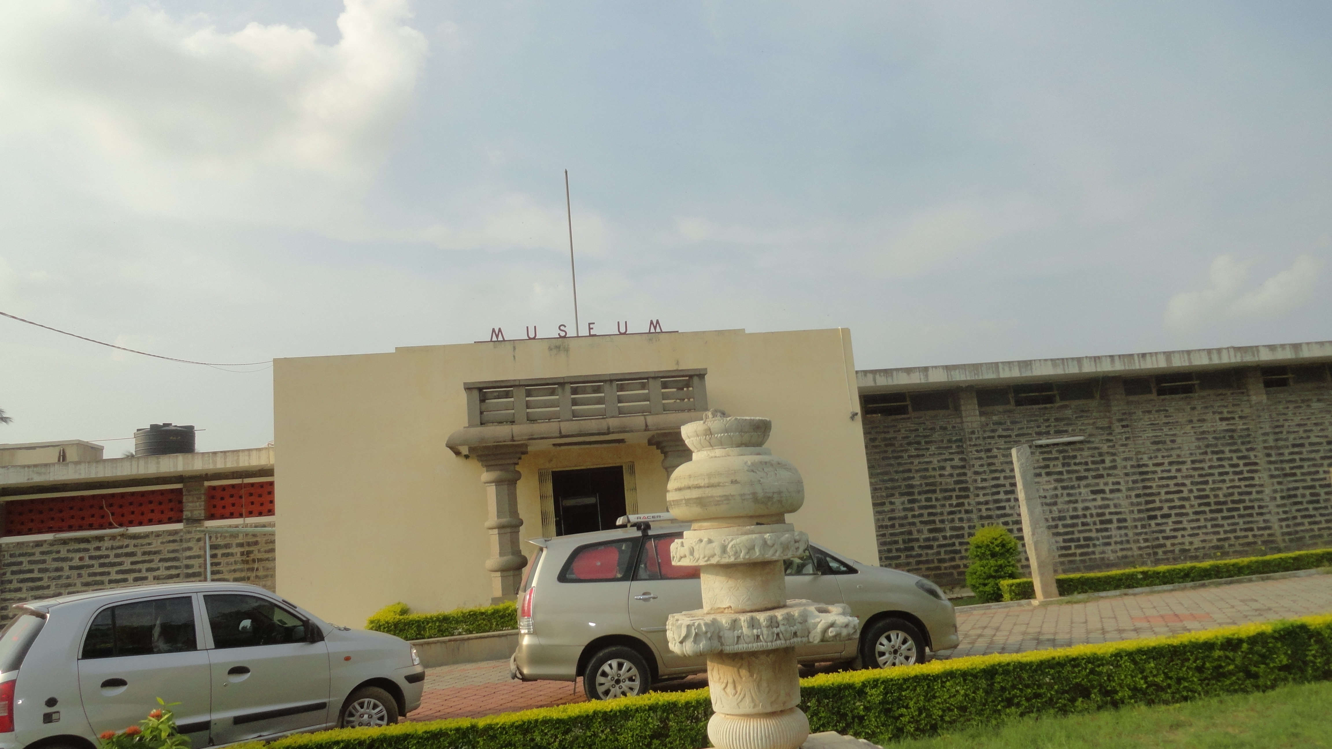 amaravato museum